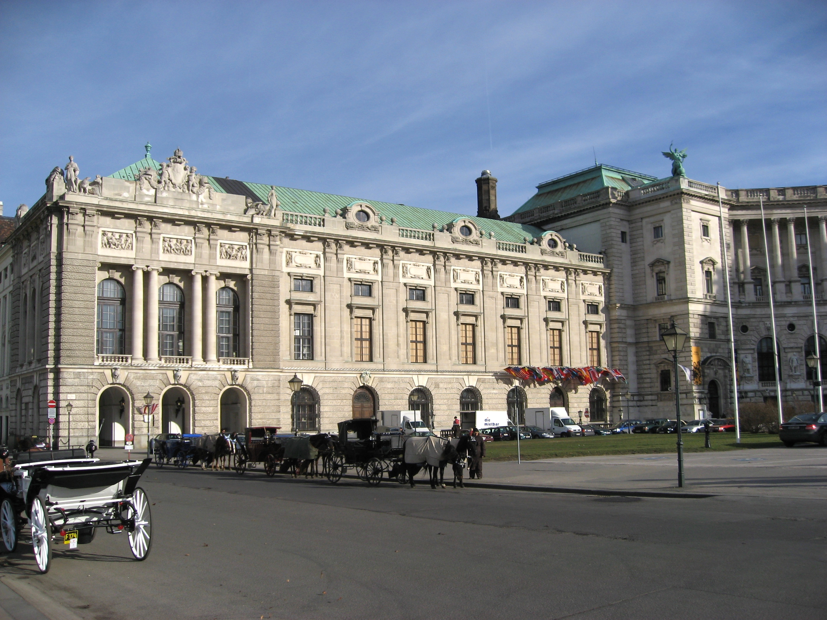 The Redoutensäle from the outside, where the OSCE has its conferences.